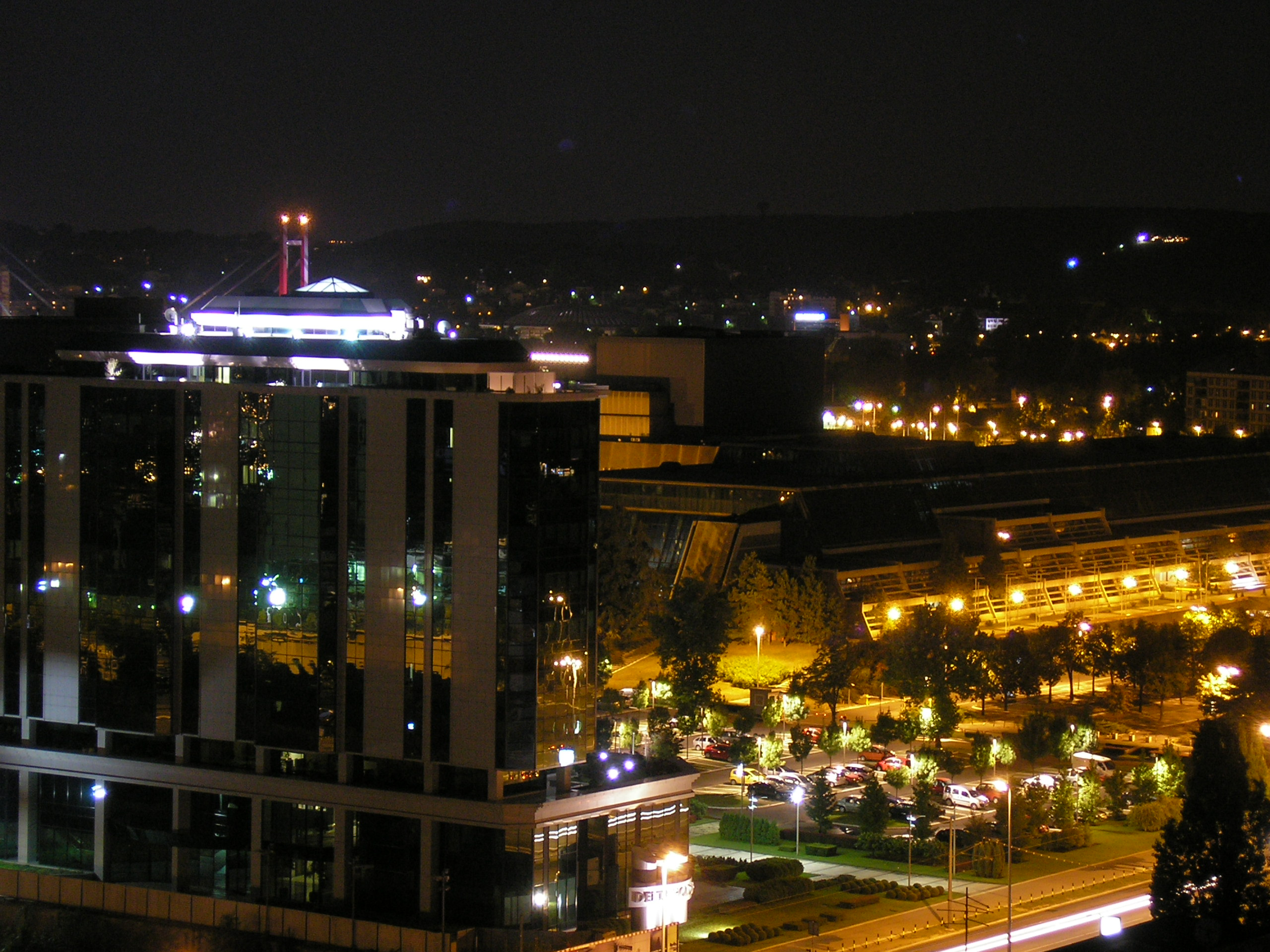 Sava Centar and a business building under night. Peaks of the Gazela bridge are visible in the background.